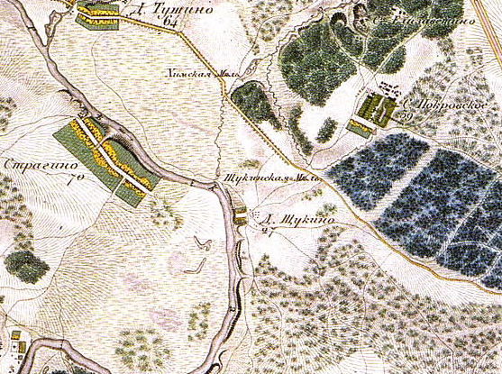 Shchukino village at the old map.